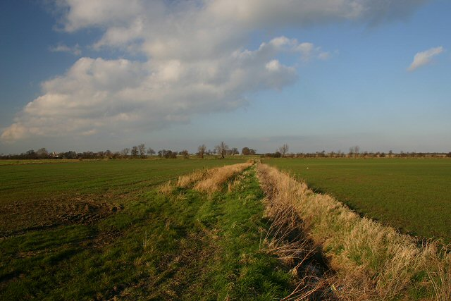 Grunty Fen fields Field margins at Grunty Fen, south of Wentworth.